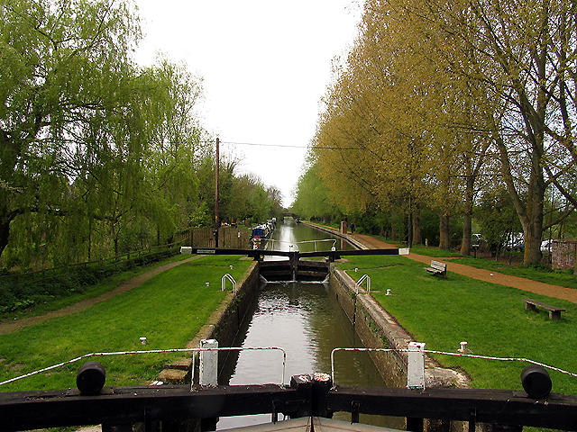 Kintbury Lock: Kennet and Avon Canal. A view looking west of the lock which is situated in the lower half of the grid square.